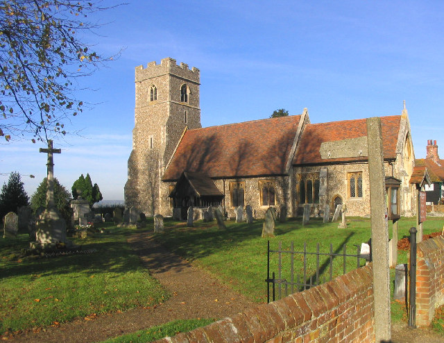 St. Christopher's Church, Willingale, Essex. This small village is blessed with two parish churches. The gateway show here marks the boundary between 'Willingale Spain' and 'Willingale Doe' parishes. The history behind this two church village can be found at